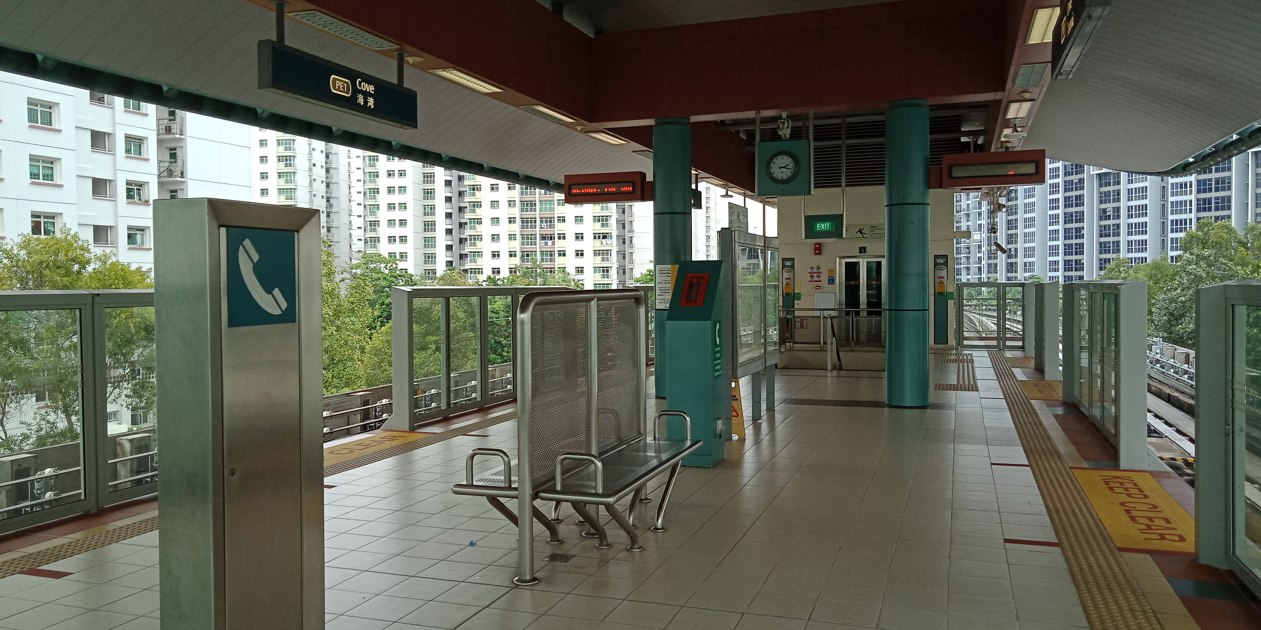 Cove LRT station on the Punggol LRT line.